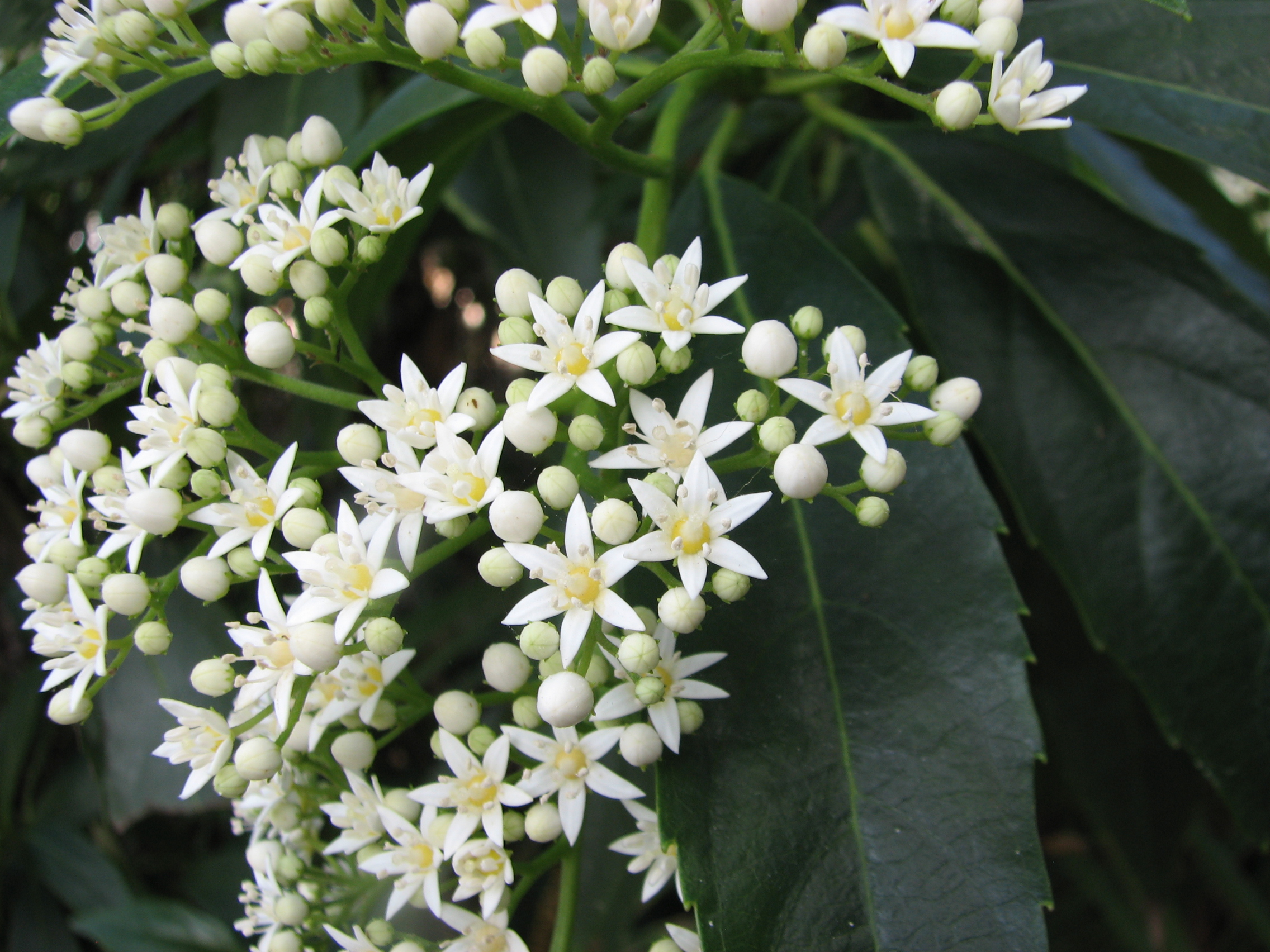 Cuttsia viburnea (cultivated, labelled) Royal Botanic Gardens Melbourne, Australia